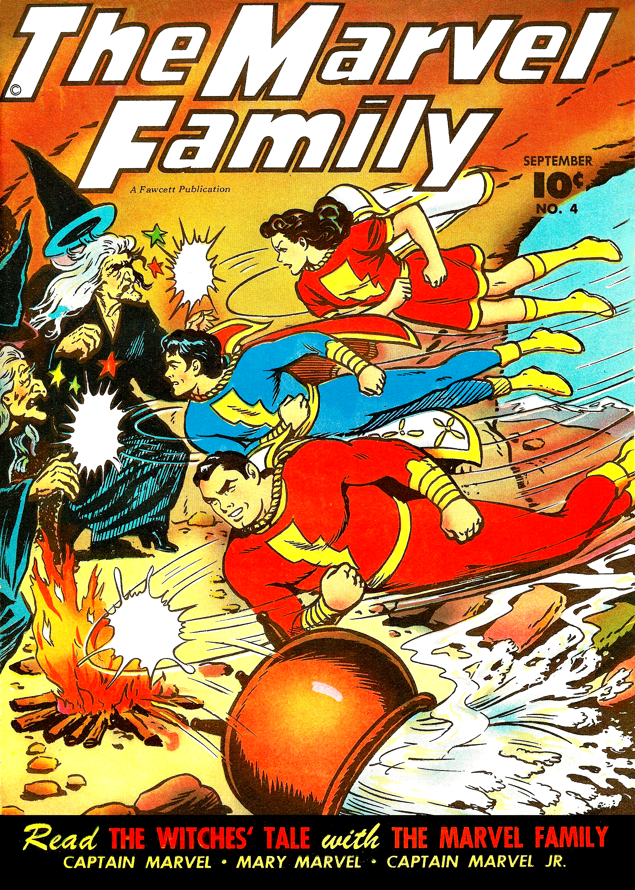 Cover of Marvel Family number 4, as published by Fawcett Comics (September 1946). Uploaded as a possible replacement for File:MarvelFamily1.jpg, which has been shown to be under copyright to Warner Brothers.